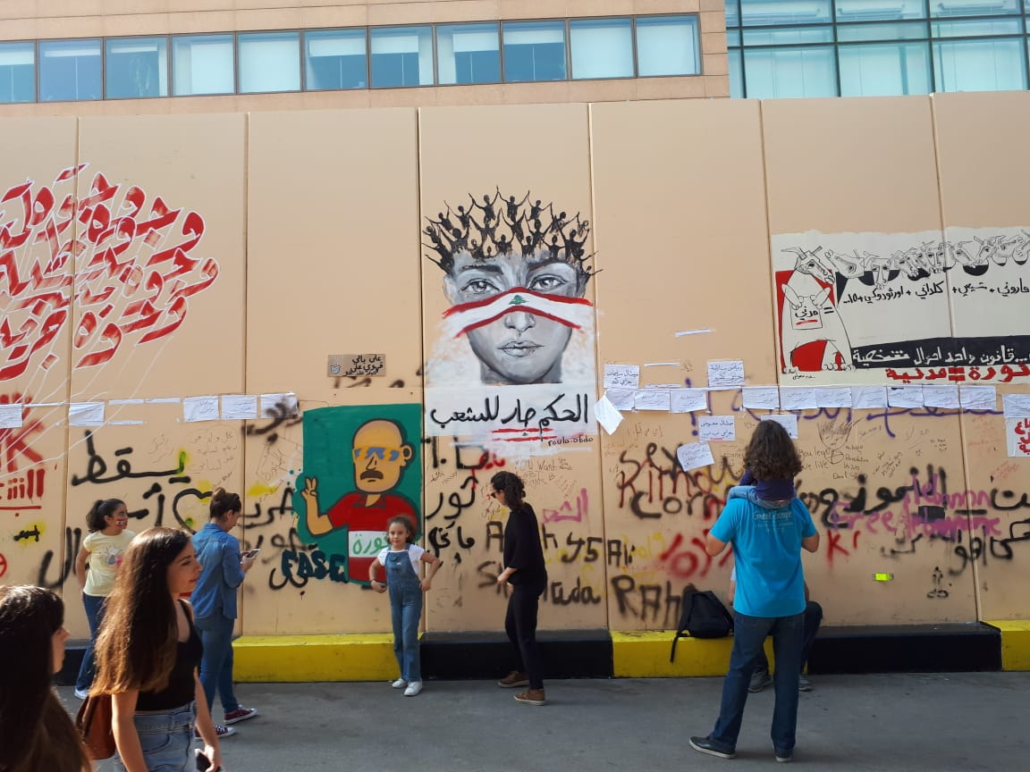 Protest in Beirut